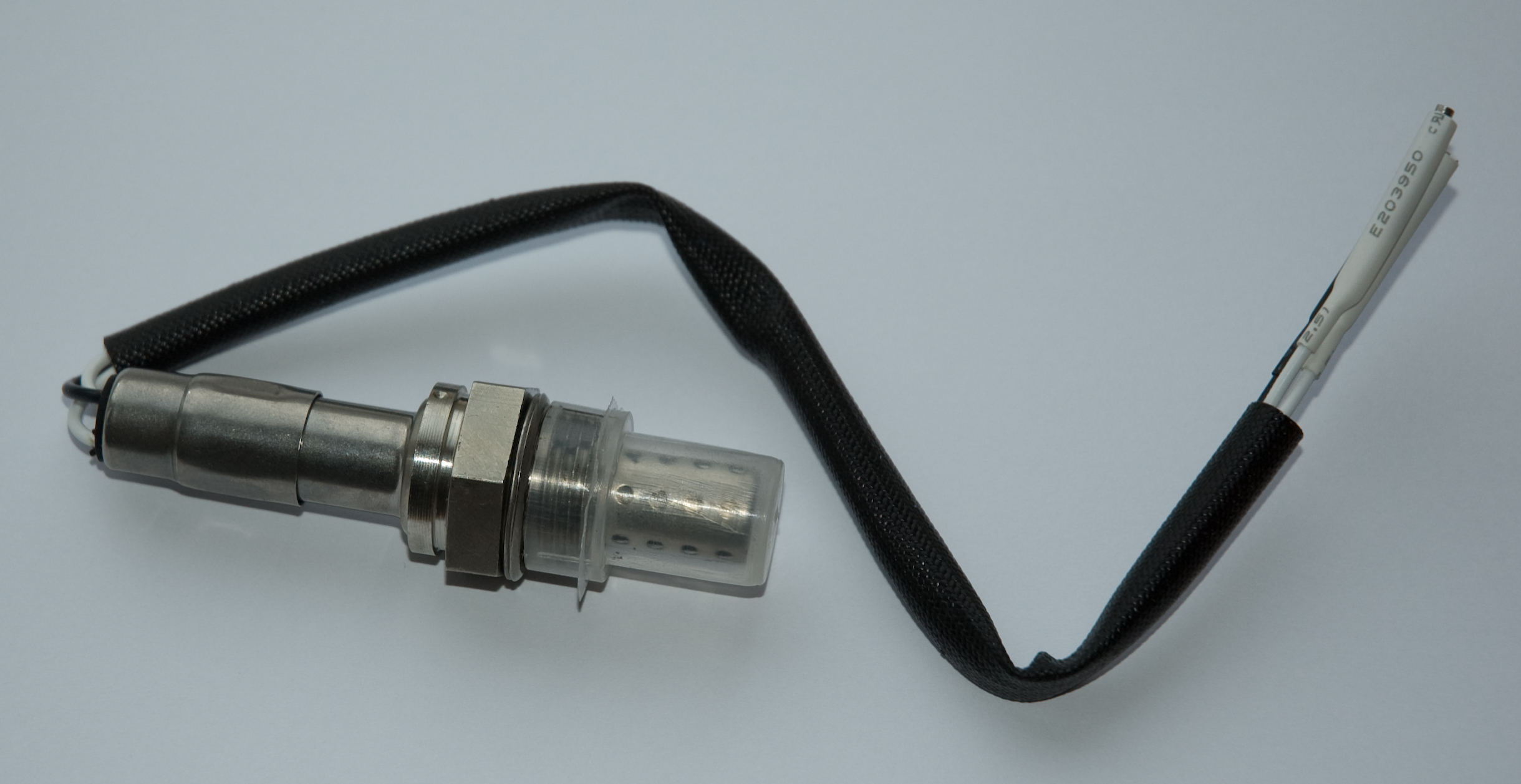 Oxygen sensor spare part for a Volvo 240 car (actually many different types of cars use this particular kind of oxygen sensor).